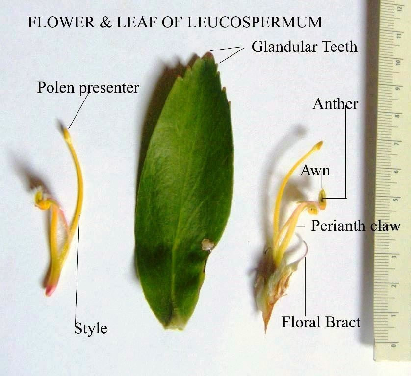 Flower & leaf of a leucospermum hybrid (L glabrum x tomentosum) showing various parts